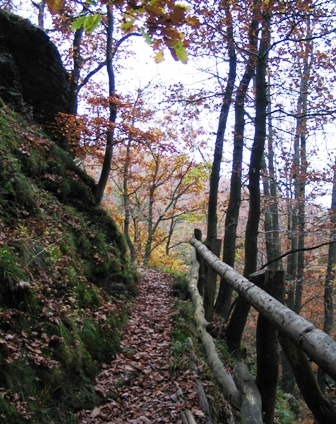 A section of the Wilderness Trail in oak forest between Leykaul and Erkensruhr in the Eifel National Park, Germany